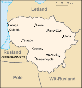 An Afrikaans map of Lithuania, based on the English version in the CIA World Factbook.